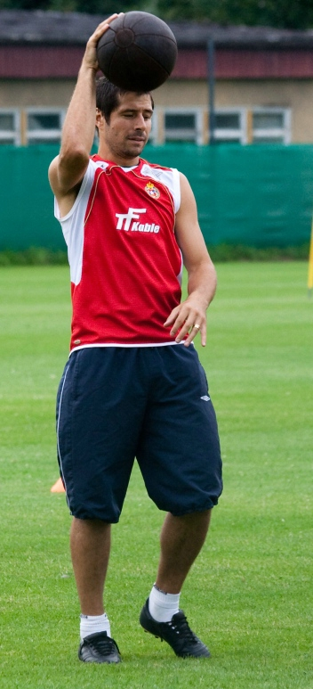 Mauro Cantoro